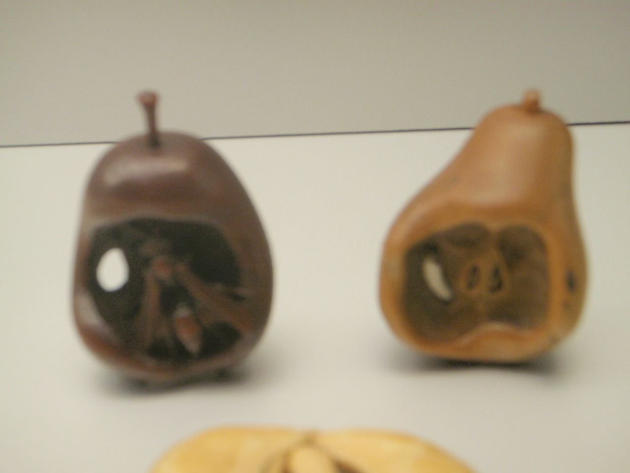 from the netsuke-collection, Kunstpalast Düsseldorf Zoomed-in of 2. Size:hazelnuts